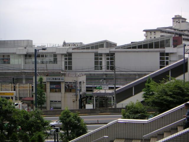 East exit of Osaki Station